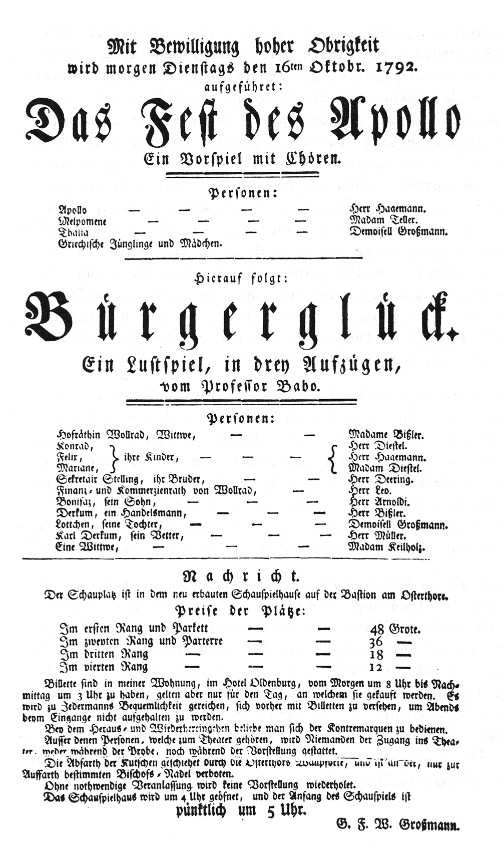 Playbill for the presentation of the play Bürgerglück (“Citizens’ fortune”) writtten by Joseph Marius von Babo and performed by the company of Gustav Friedrich Großmann on occasion of the inauguration of the Bremer Stadttheater (“City theater of Bremen”) in 1792.